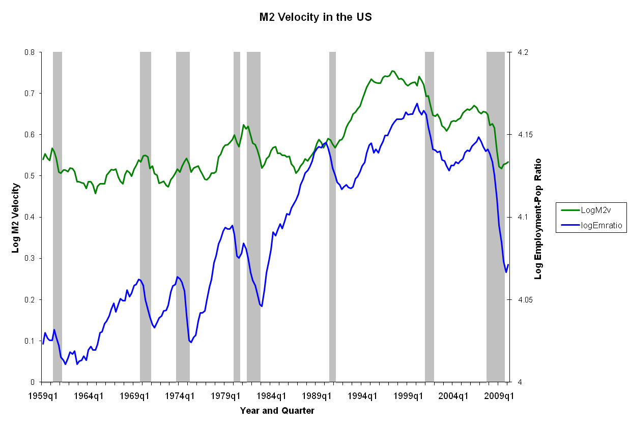 Chart of M2 money velocity and employment-population for the United States. EMratio, nominal GDP, and M1 NSA stock data from Federal Reserve. M2 velocity calculated using nominal GDP divided by M1 stock. Data in logs. NBER Recessions in gray. Created in Excel.